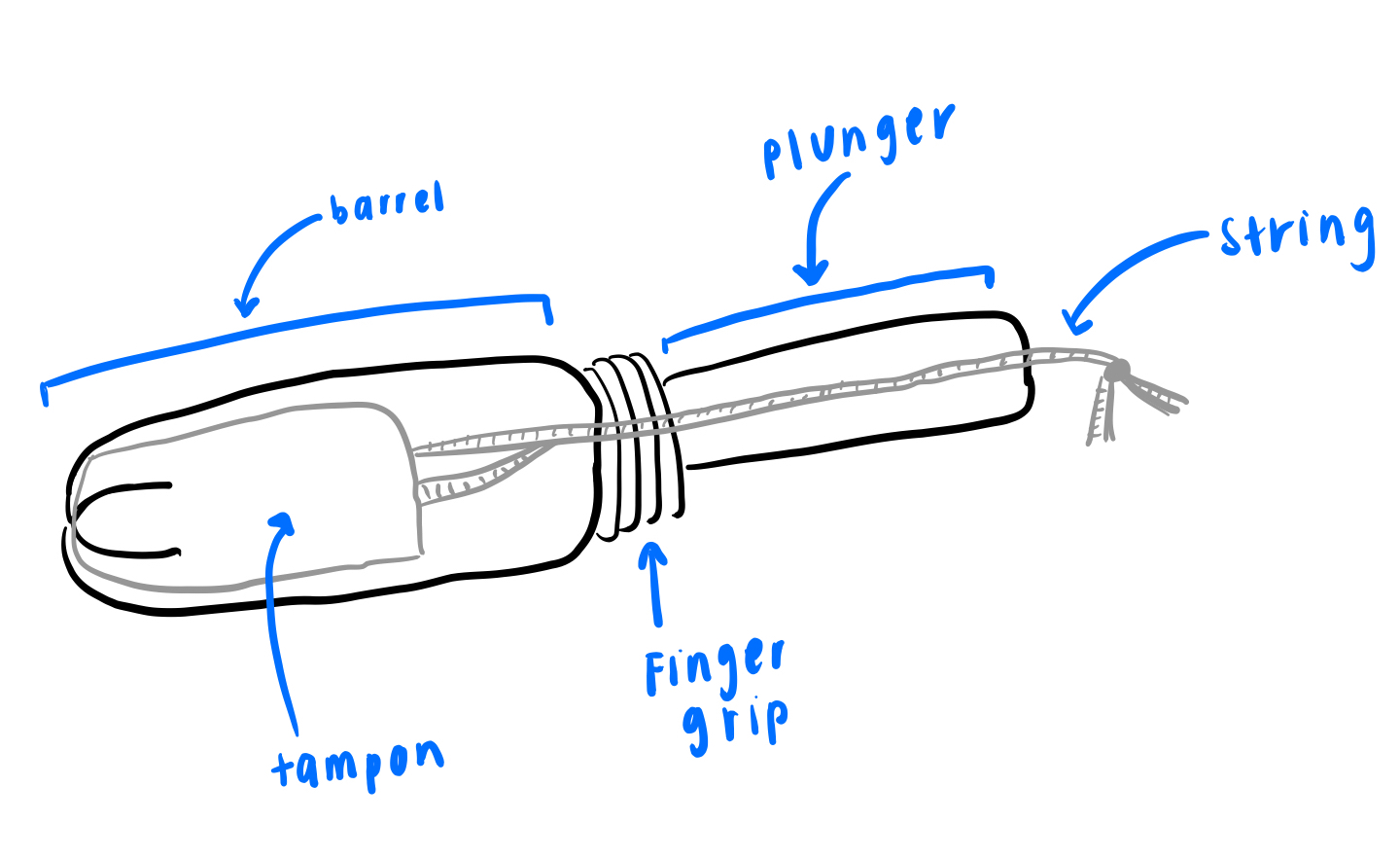 This image is a drawing captioning the parts of a tampon, including the barrel, plunger, tampon, string, and the finger grip.